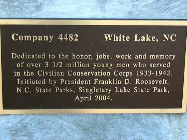 A plaque recognizing the efforts of the CCC at Singletary Lake State Park